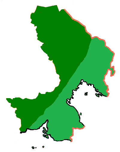 Finnish Karelia 1864-1940: lighter green shows the former part, which nowadays belongs to Russia